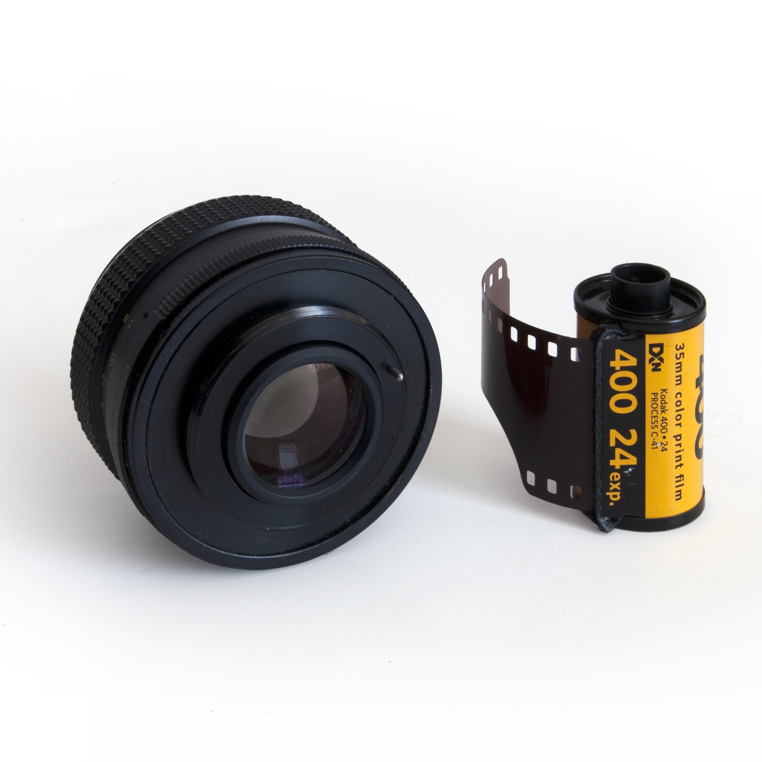 Rikenon 50mm F2 lens photographed from rear to display the M42 screw mount. Film canister included for scale.